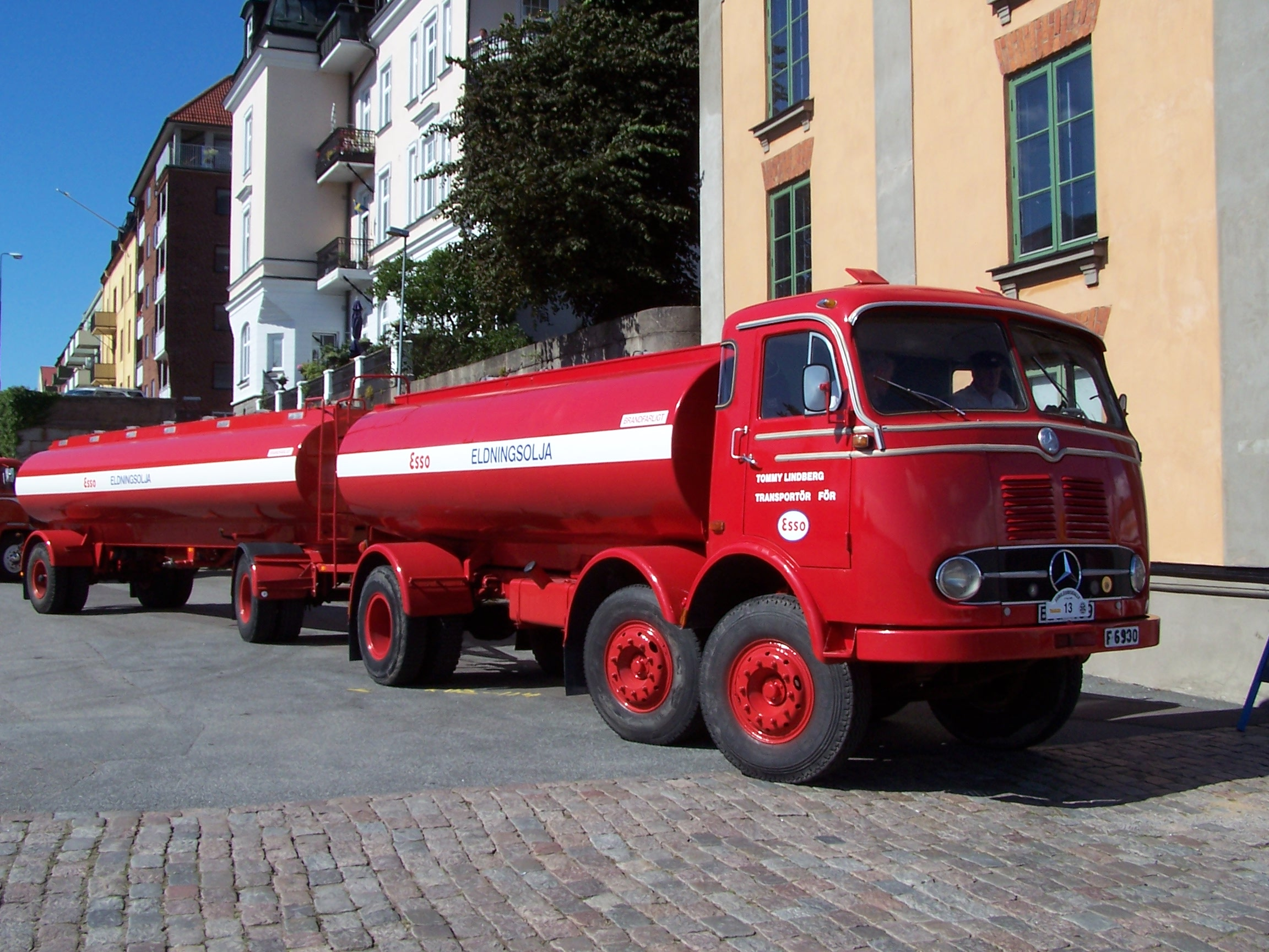 Mercedes-Benz LP333 (year 1960).